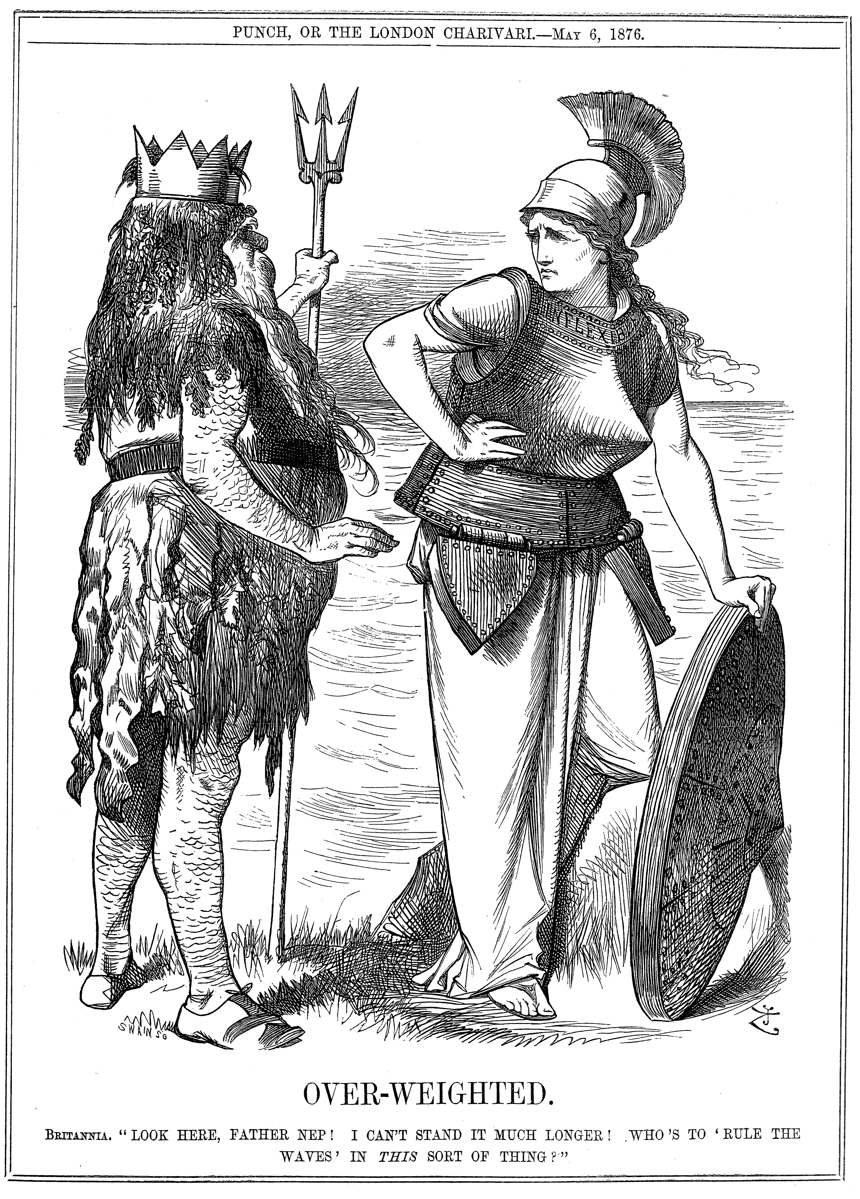 "Over-Weighted" - a Punch cartoon on the subject of ironclads from 1876. Left, Neptune; Right, Britannia